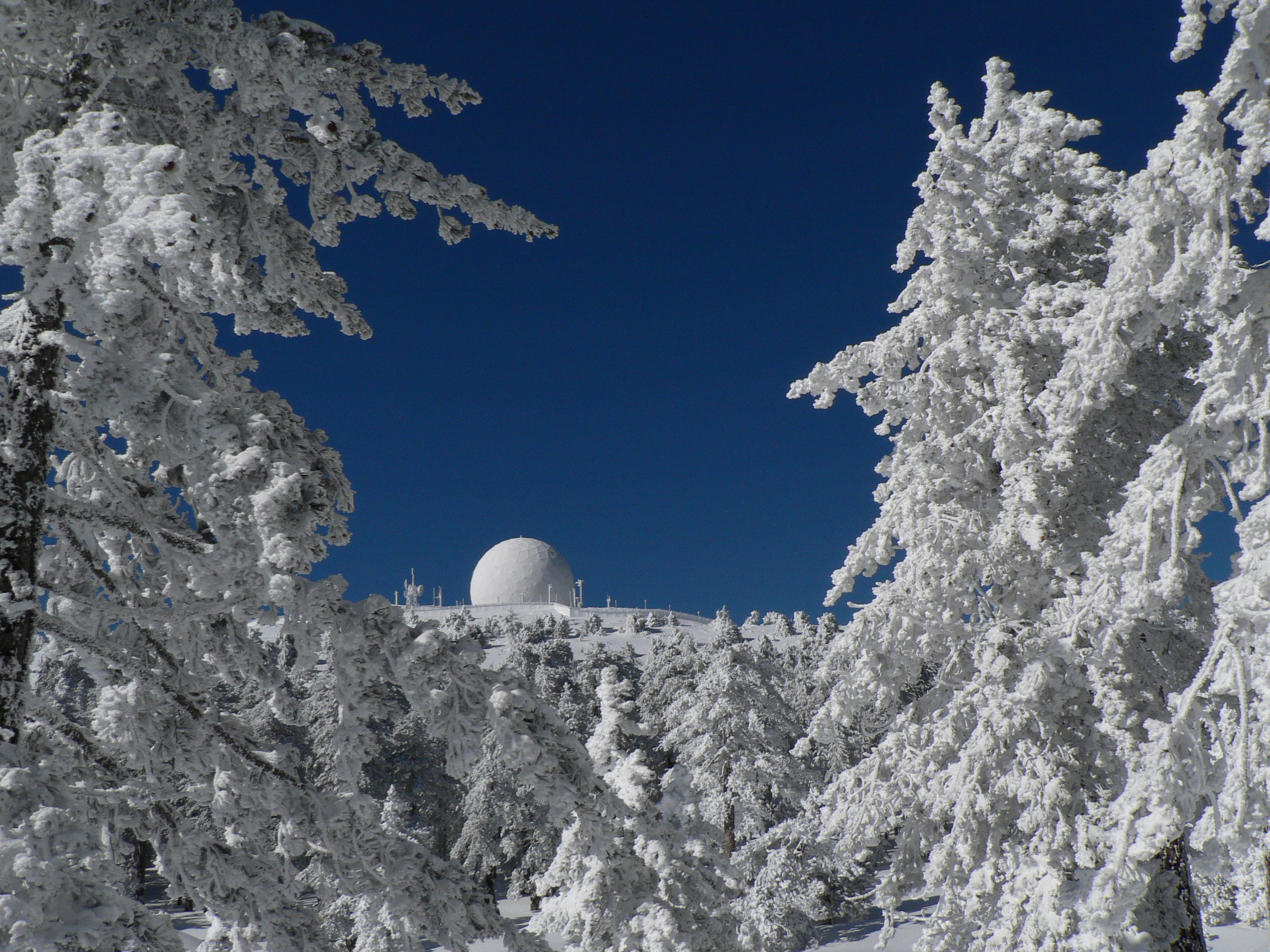 The Royal Air Force radar station at Chionistra summit of Olympus Mountain, Troodos Mountains, Cyprus.